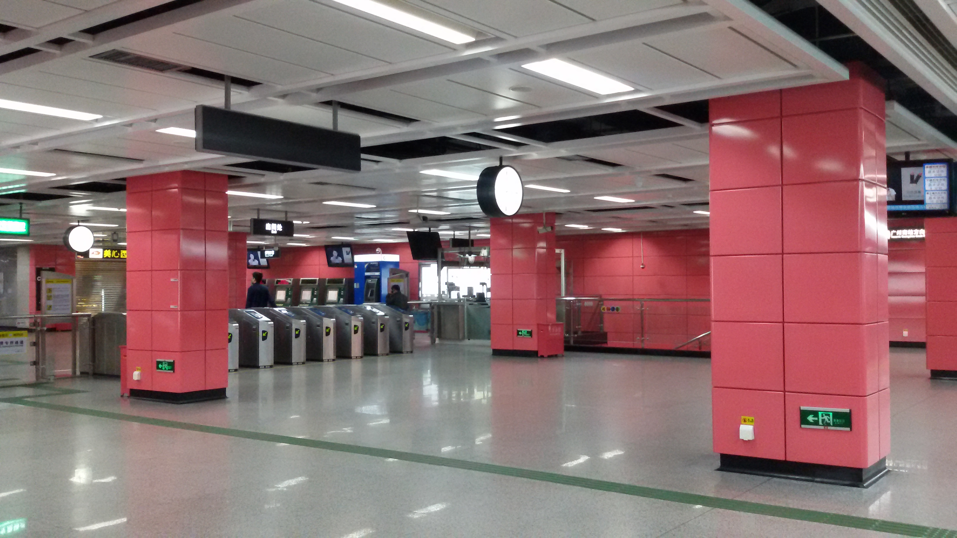 Station Concourse for Baiyun Culture Square Station in Guangzhou Metro 粵語: 廣州地鐵，白雲文化廣場站嘅站廳。